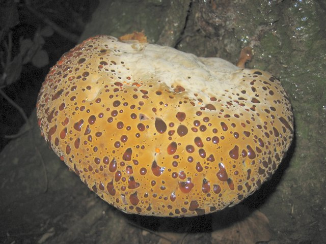 Bracket fungus at Morningthorpe Green There is no image for a bracket fungus quite like this on the first 11 pages of a Google images search. The fungus was growing on an oak tree. A few days later the "guttation drops" - as I believe they're called - had largely disappeared. A positive identification is beyond me but a lot of photos of bracket fungi are accessible via .